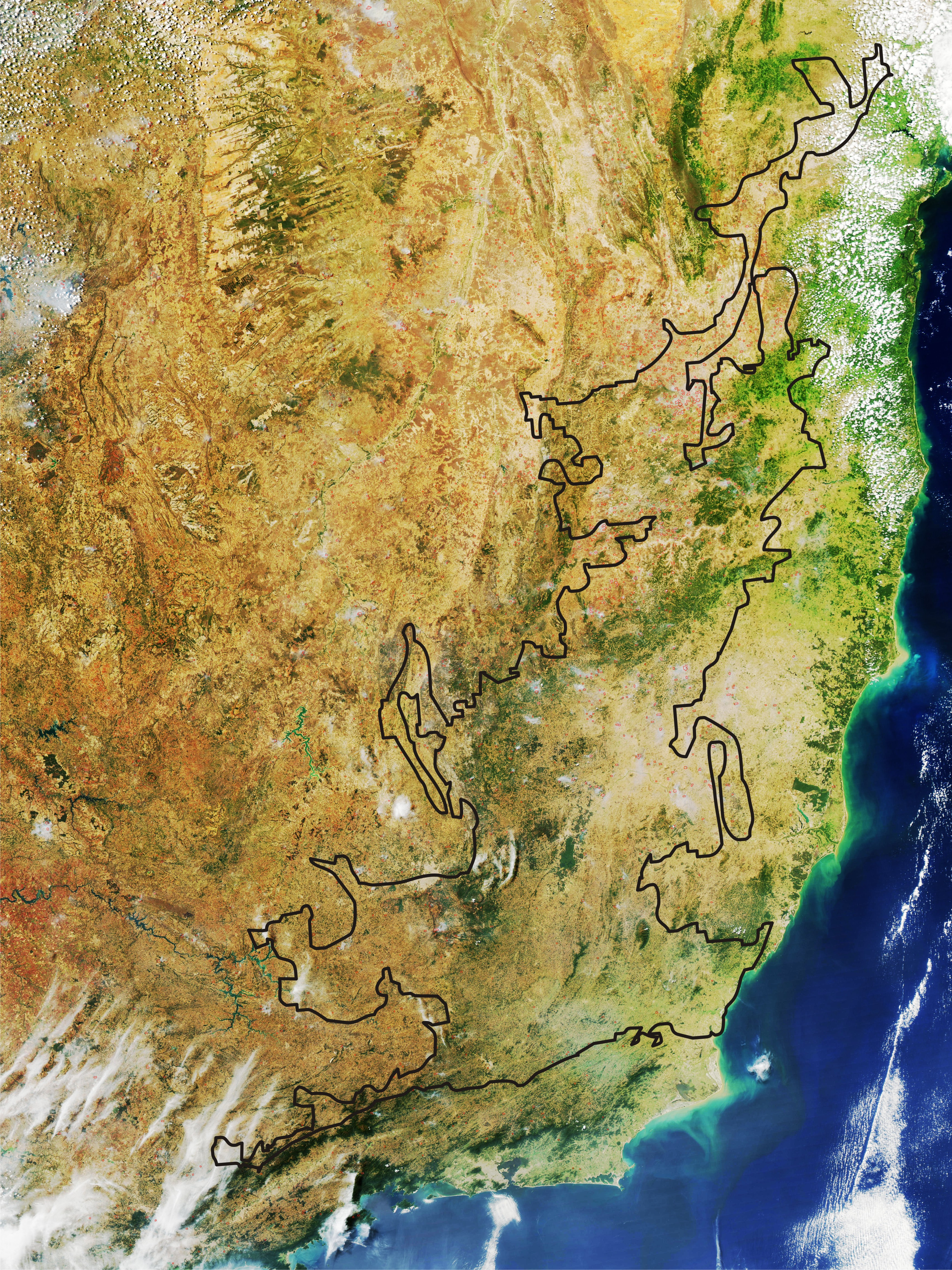 Bahia interior forests ecoregion — of the Atlantic Forest biome. The black line encloses the ecoregion limits. As delineated by WWF. I, Miguelrangeljr, made the limits with Corel Draw X4.